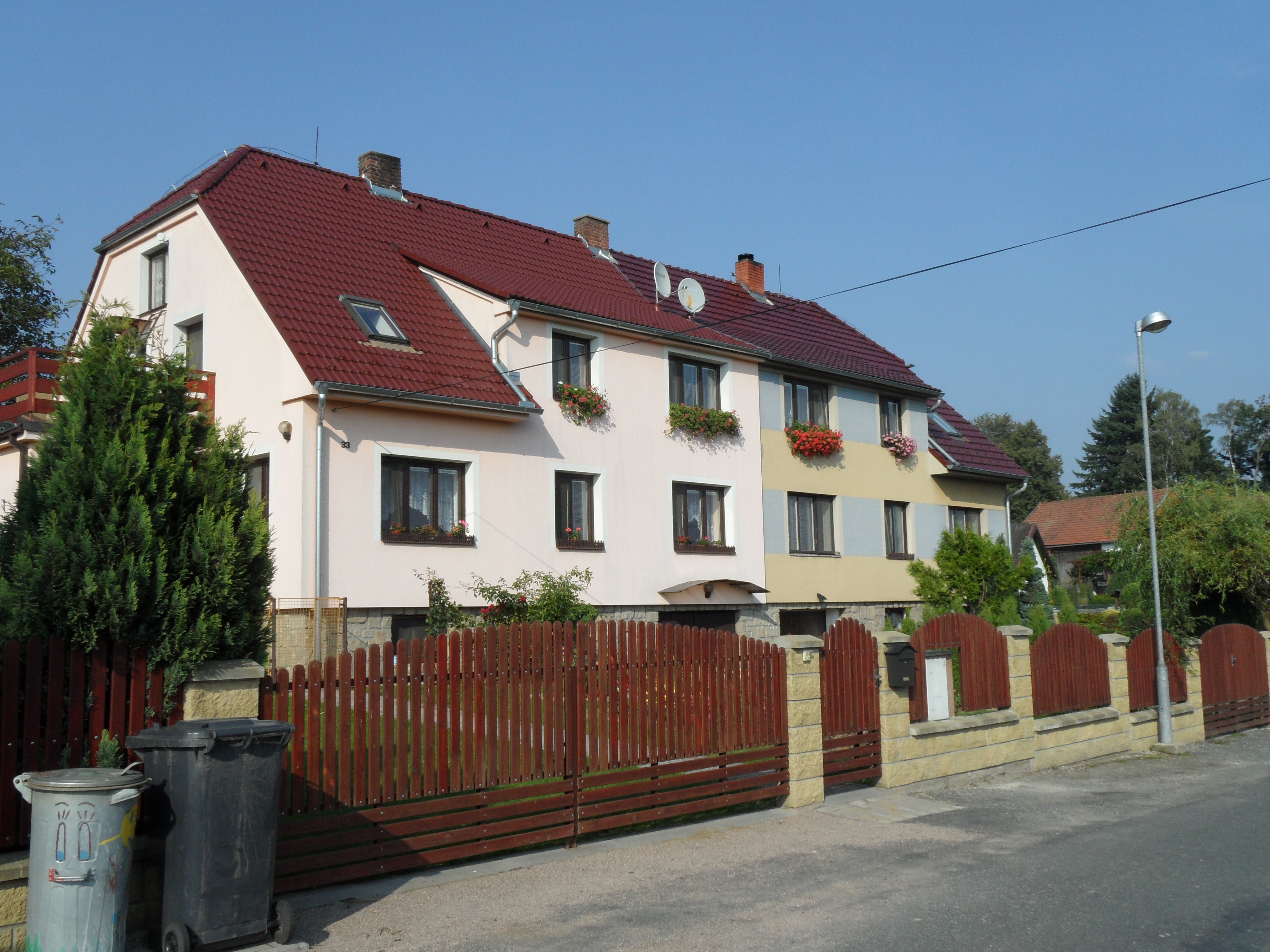 Nový Samechov C. Houses near Road from Řendějov, Kutná Hora District, the Czech Republic.